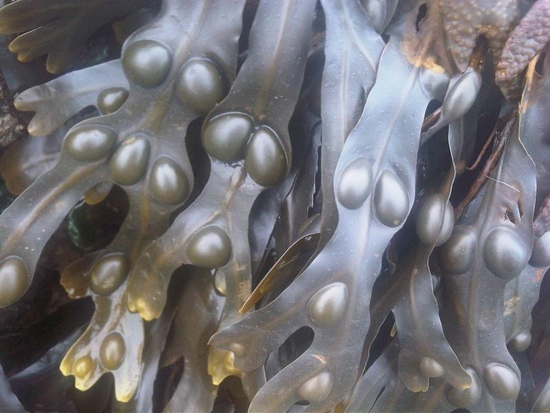 Bladder wrack (Fucus vesiculosus) from Broadstairs, England.